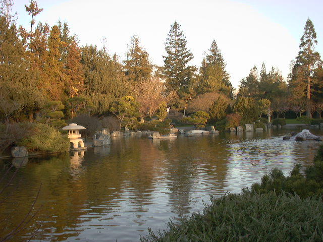 Taken by me January 16, 2005 category:Ponds category:San Jose